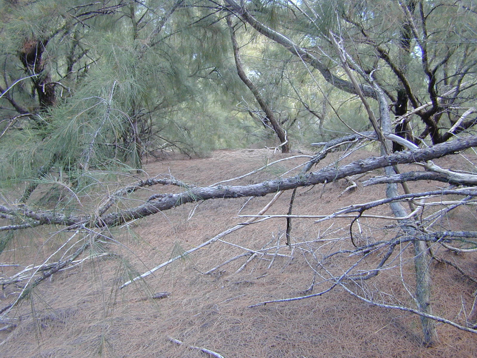 Photograph of ground beneath a forest of Casuarina equisetifolia (ironwood) trees showing allelopathy. Photographed at Moloa‘a, Kaua‘i, Hawai‘i.